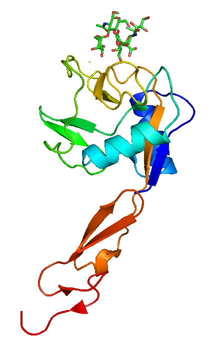 P selectin lectin, PDB 1G1R